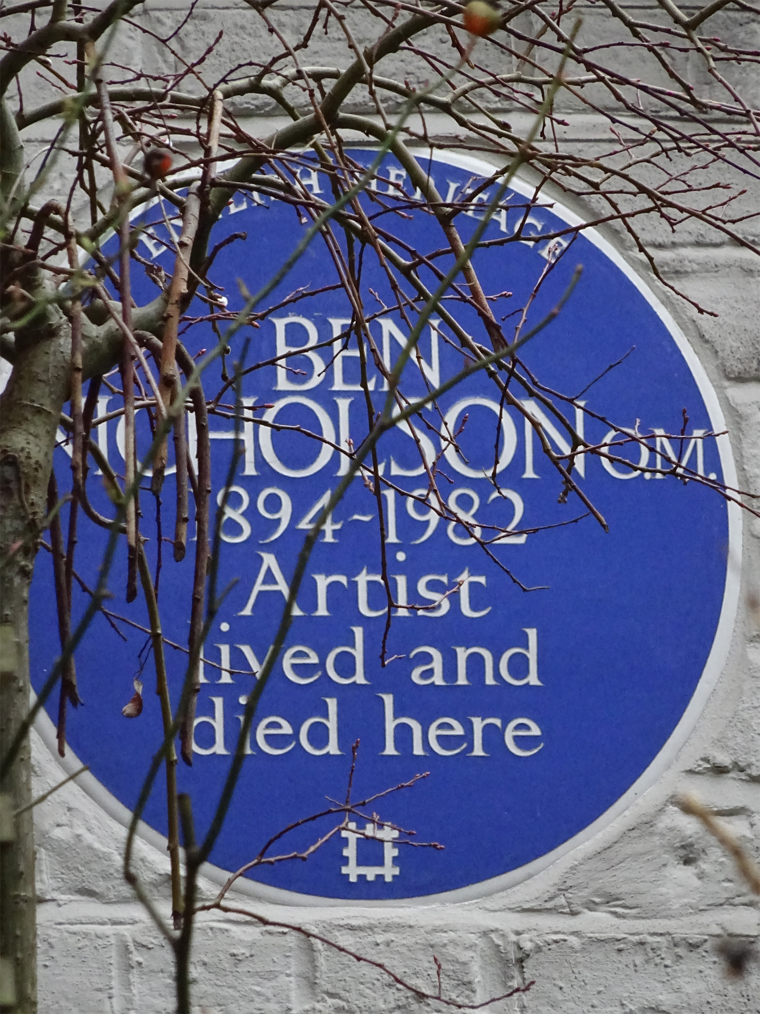 Blue plaque erected in 2002 by English Heritage at 2B Pilgrims Lane, Hampstead, London NW3 1SL, London Borough of Camden